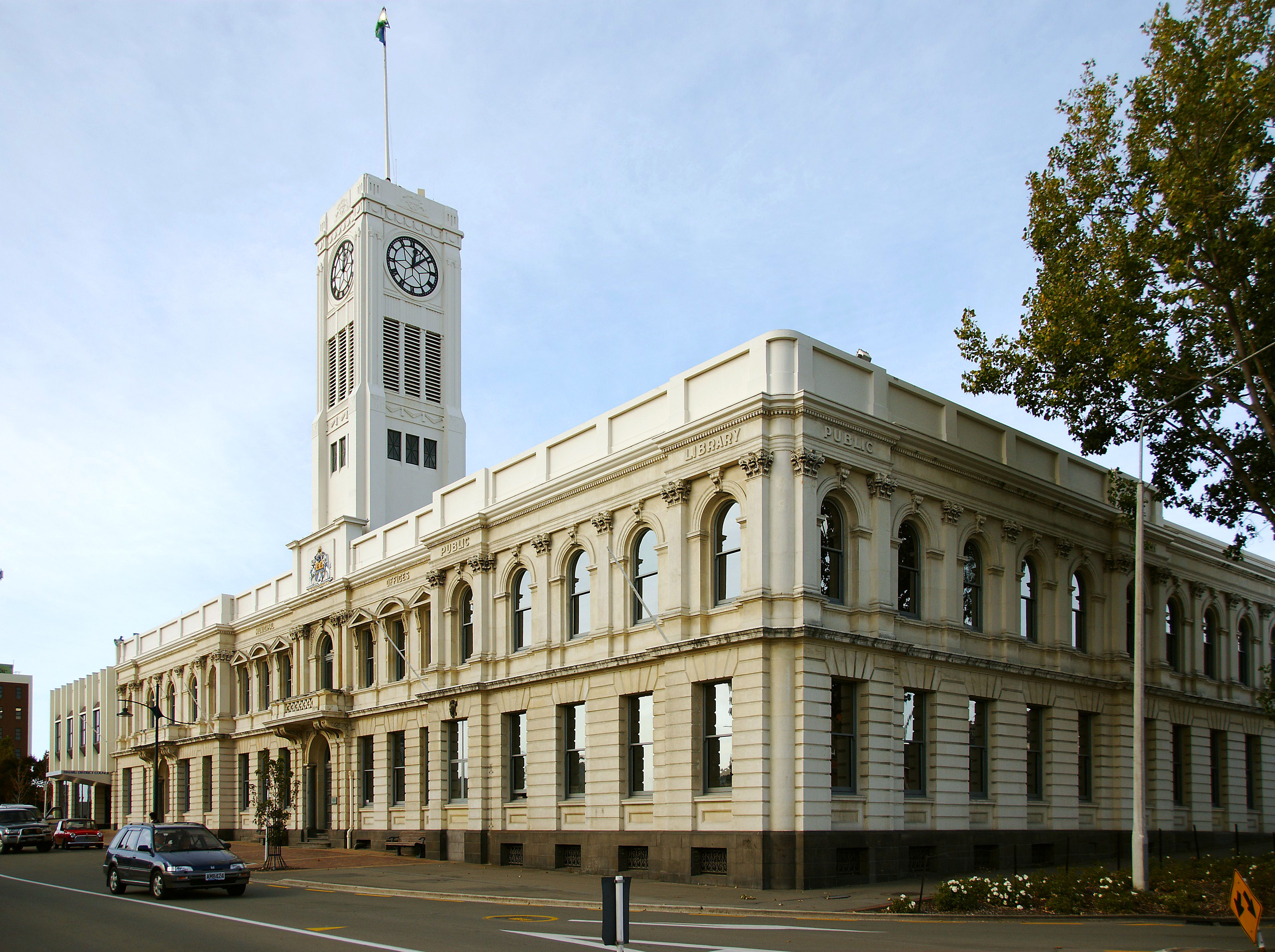 The Municipal Offices and Public Library in Timaru, made of Oamaru stone from nearby Oamaru. New Zealand Historic Places Trust Register number: 2075